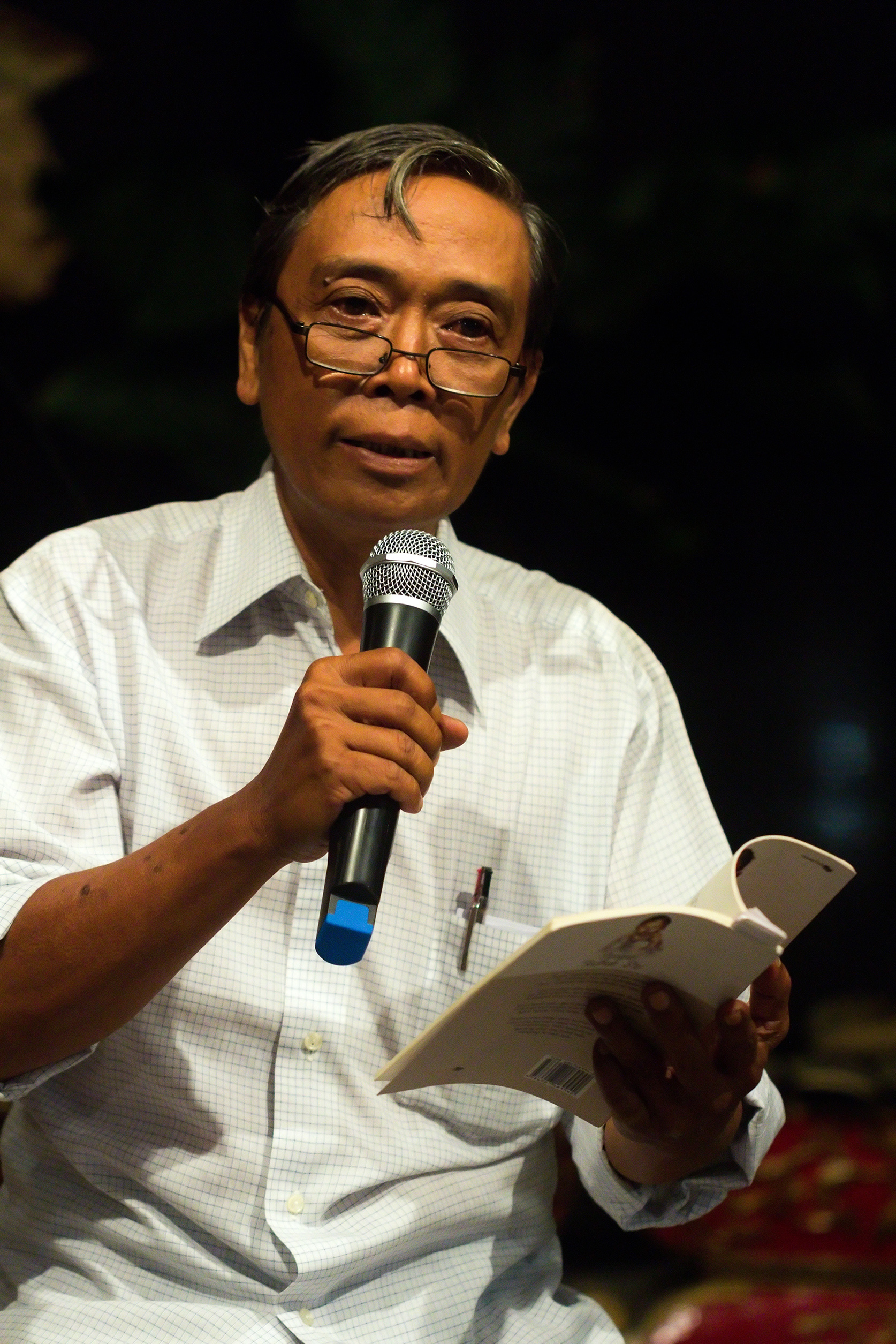 Indonesian poet Iman Budhi Santosa at the launch of his book Sesanti Tedhak Siti, a collection of geguritan, on 2015-05-30. This photograph was taken at the Ministry of Culture's pendopo in Yogyakarta.